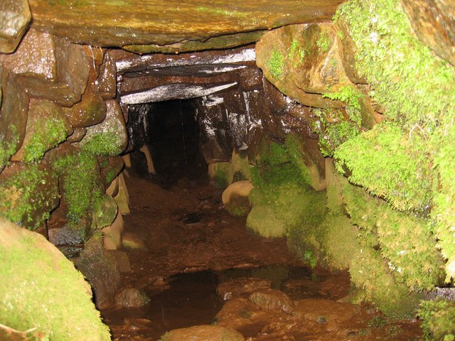 Inside the Claigan Souterrain. Just amazing. It looks from the overgrown entrance as though we were the first visitors for a long time. If this was in (eg) Wiltshire - it would be mobbed, or possibly destroyed.